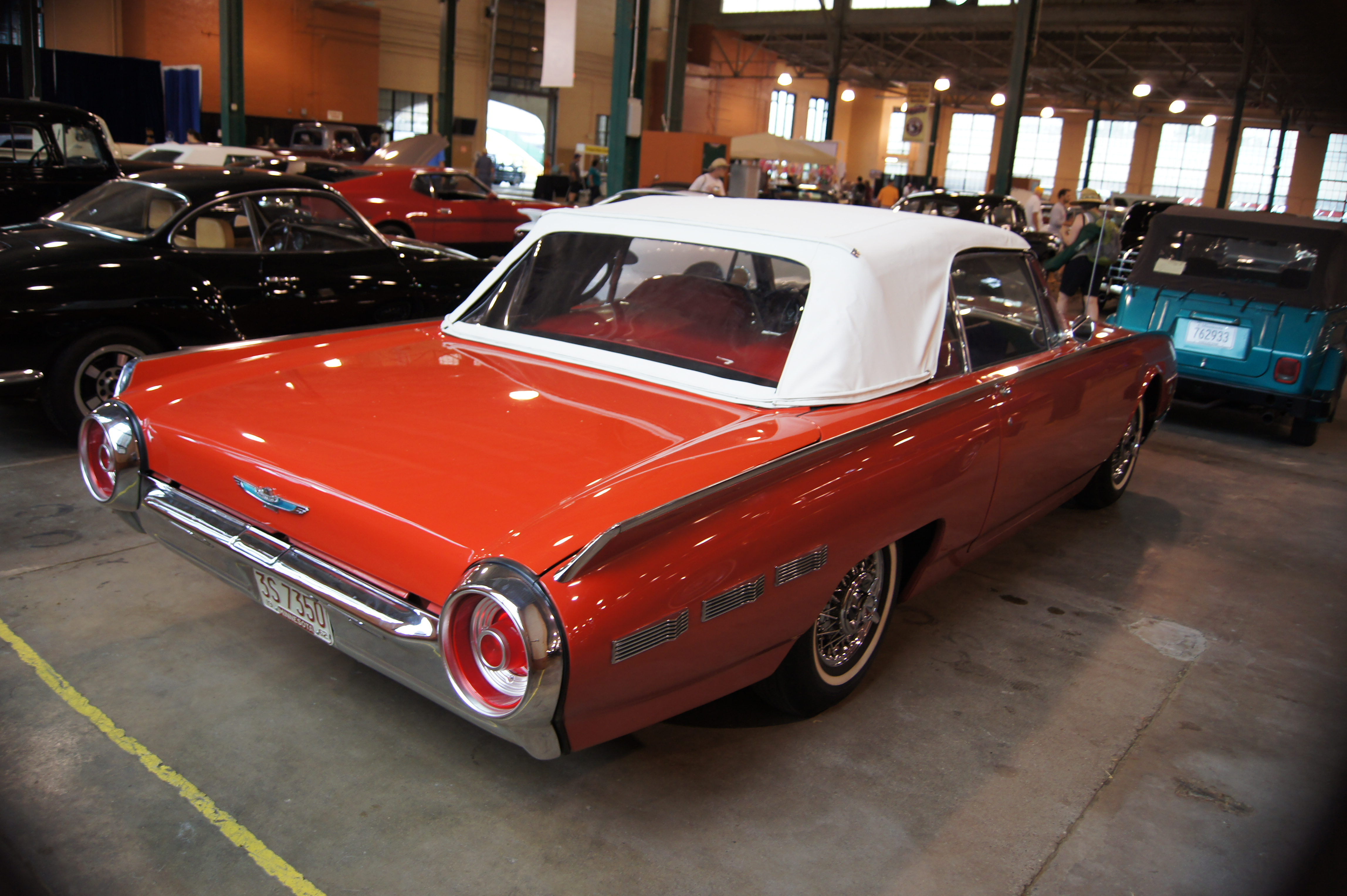 MSRA “BACK TO THE 50′s” 40th ANNIVERSARY June 21-23, 2013 State Fairgrounds St. Paul Minnesota More Car Pictures